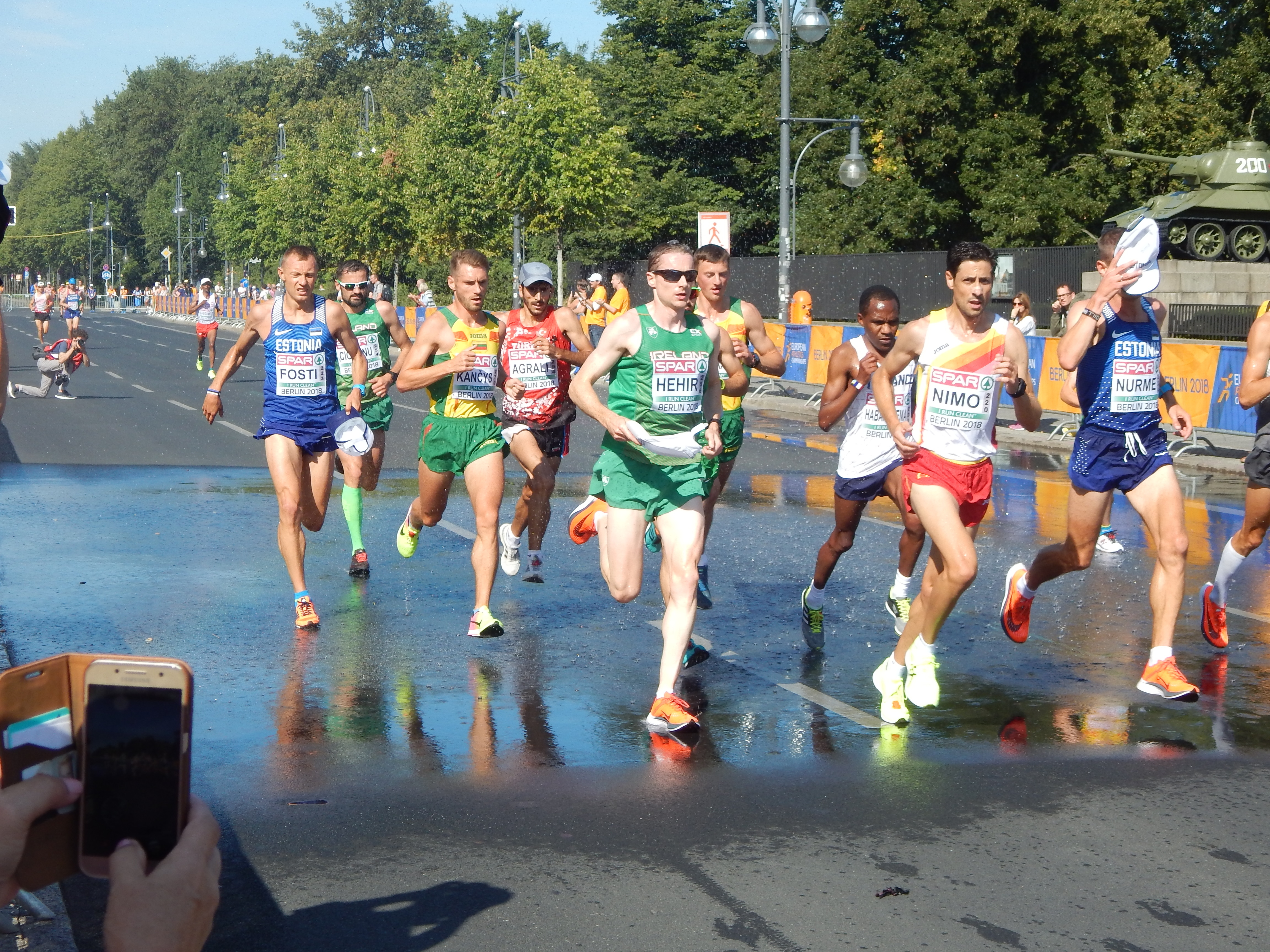 European Championships 2018 Marathon at Straße des 17. Juni